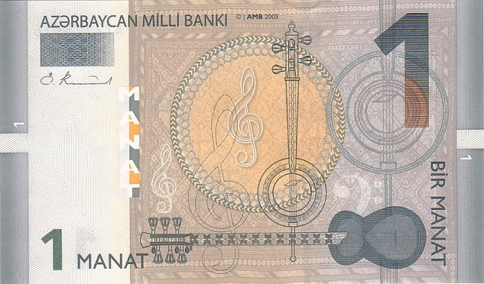 Obverse of 1 AZN